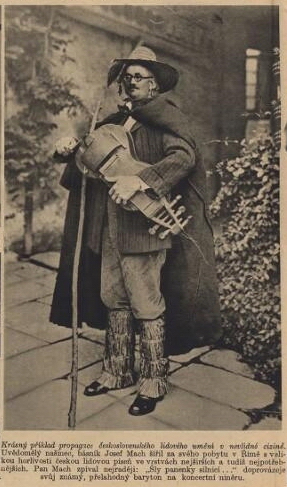 Josef Mach, Czech writer, 1929 (parodic photomontage)